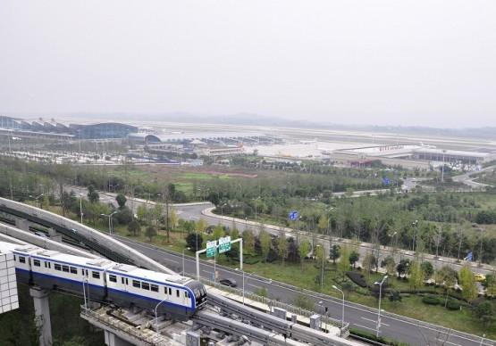 Chongqing Metro Line 3 connects the airport with the city center.